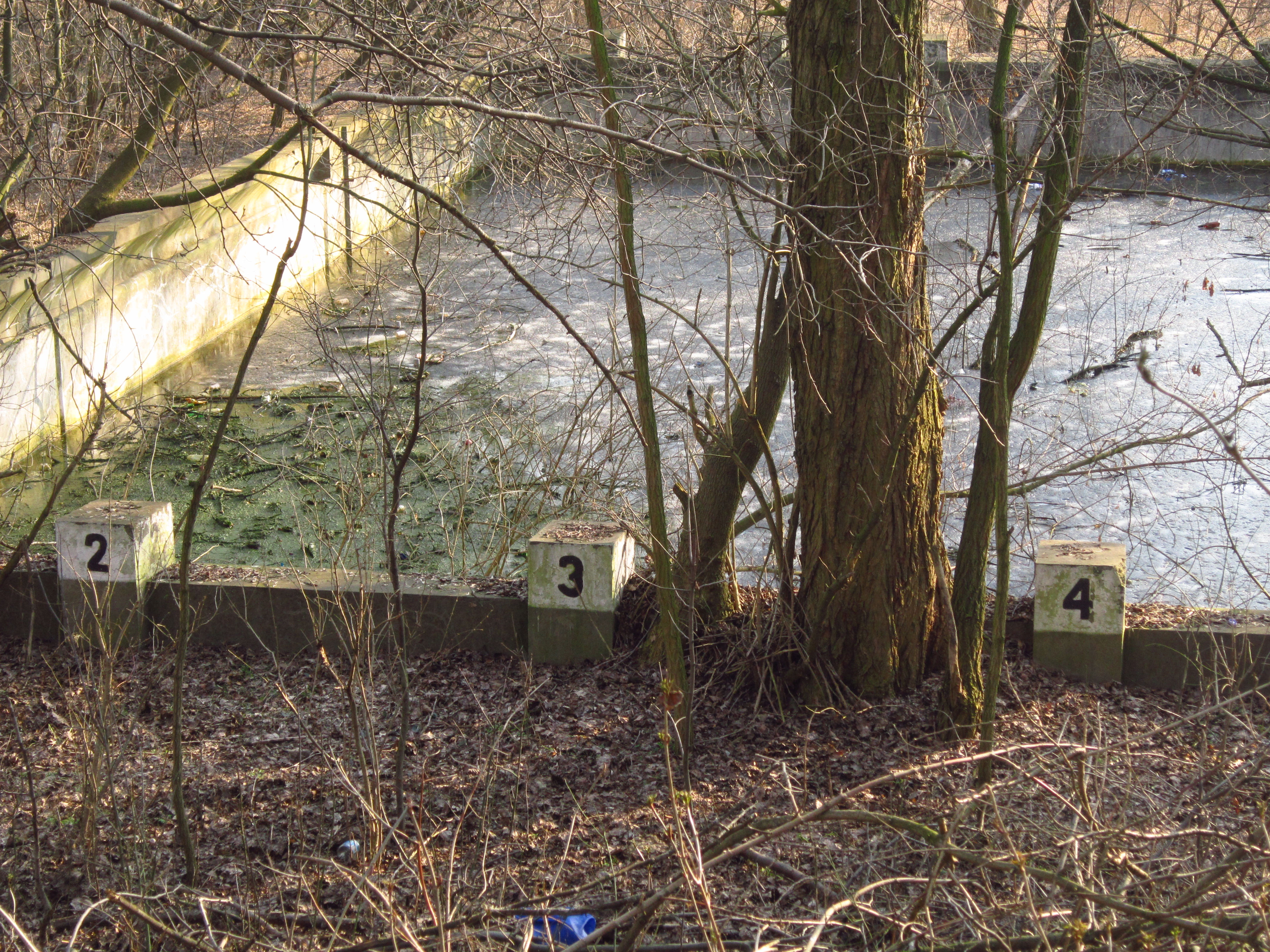 Ruins of the former swimming pool in Słodowo district in Włocławek.